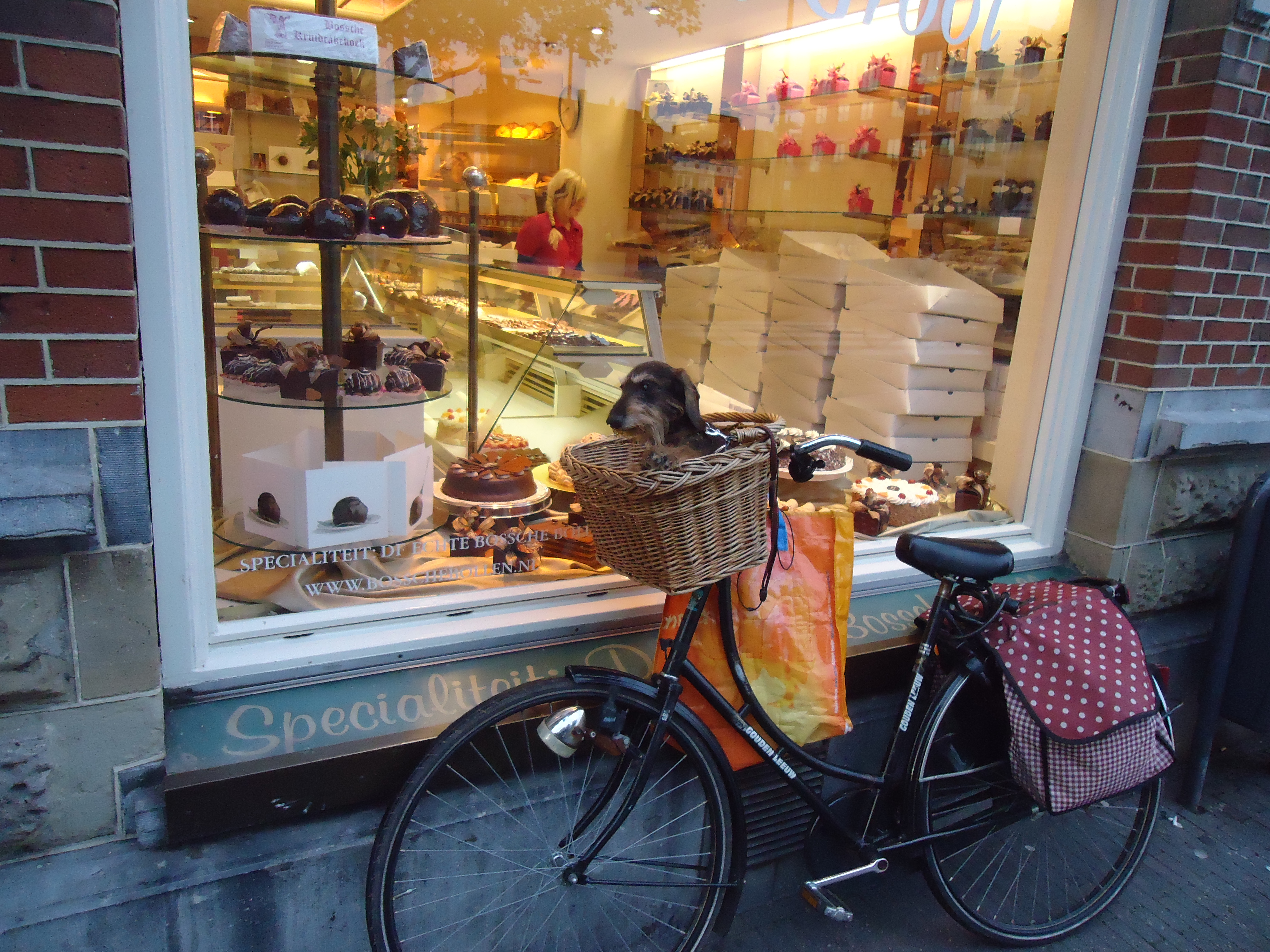 Den Bosch Bosche bollen Bakkerij De Groot